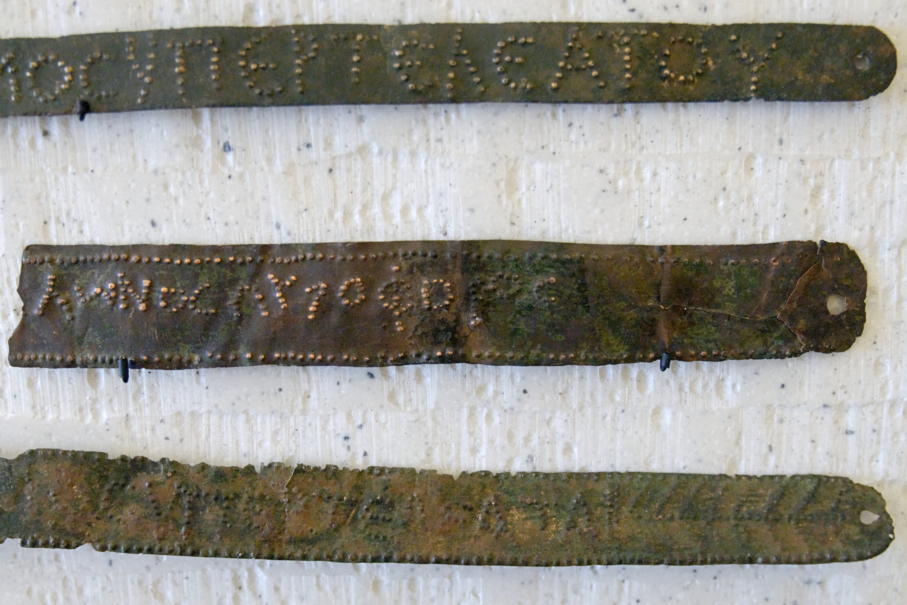 Bronze votive bands, Roman Imperial era. From the shrine of Apollo Hyperteleatas at Phoiniki, Laconia.